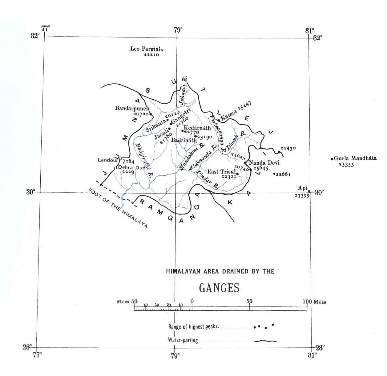 Map of the catchment zones for the Ganges river